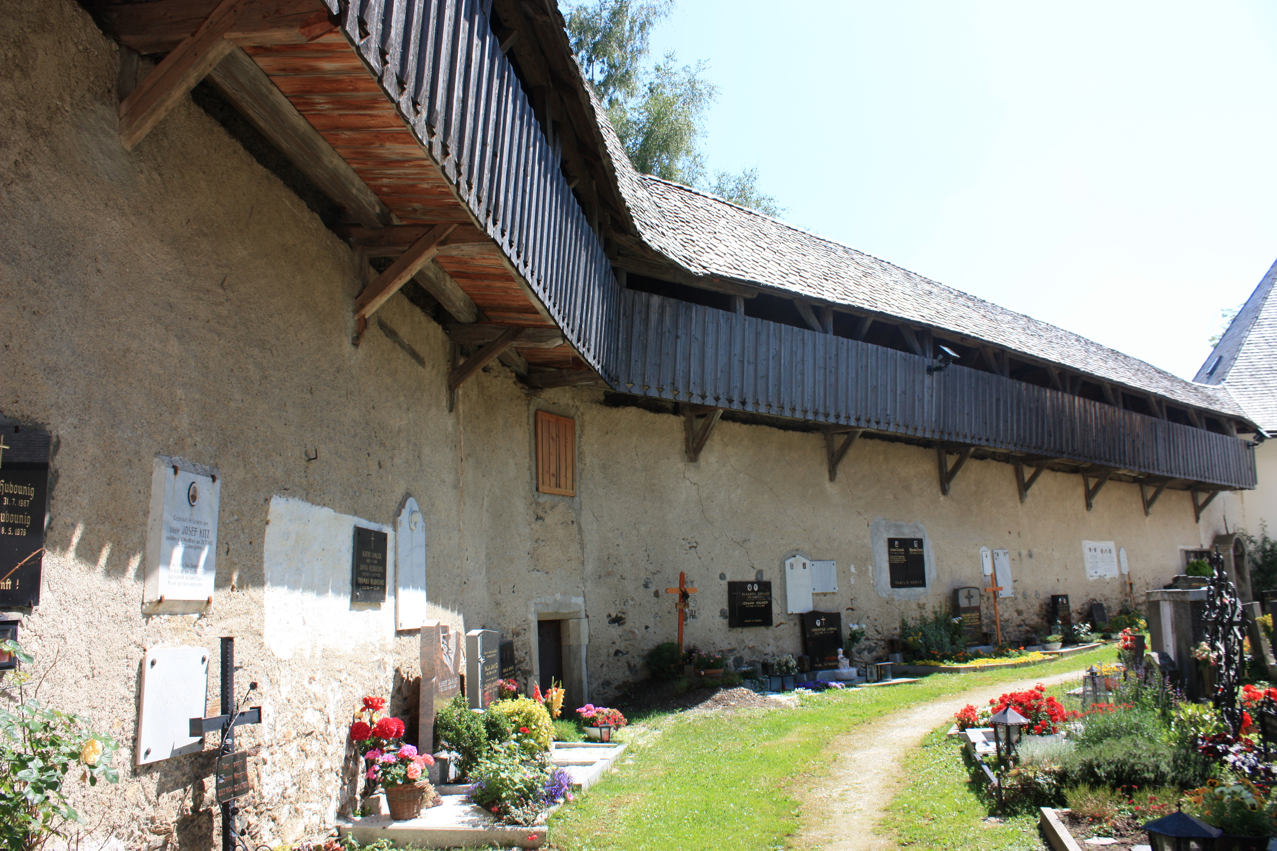 Parish church "Saint Martin" in Diex in the community of Diex - Fortification